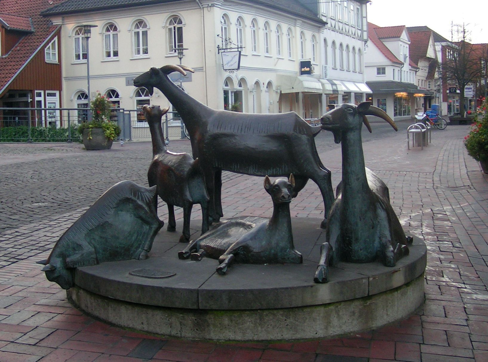 Zickendenkmal (goats' memorial) in Gifhorn, Germany. The town was known as "Zickenstadt" (goats town) in former times.